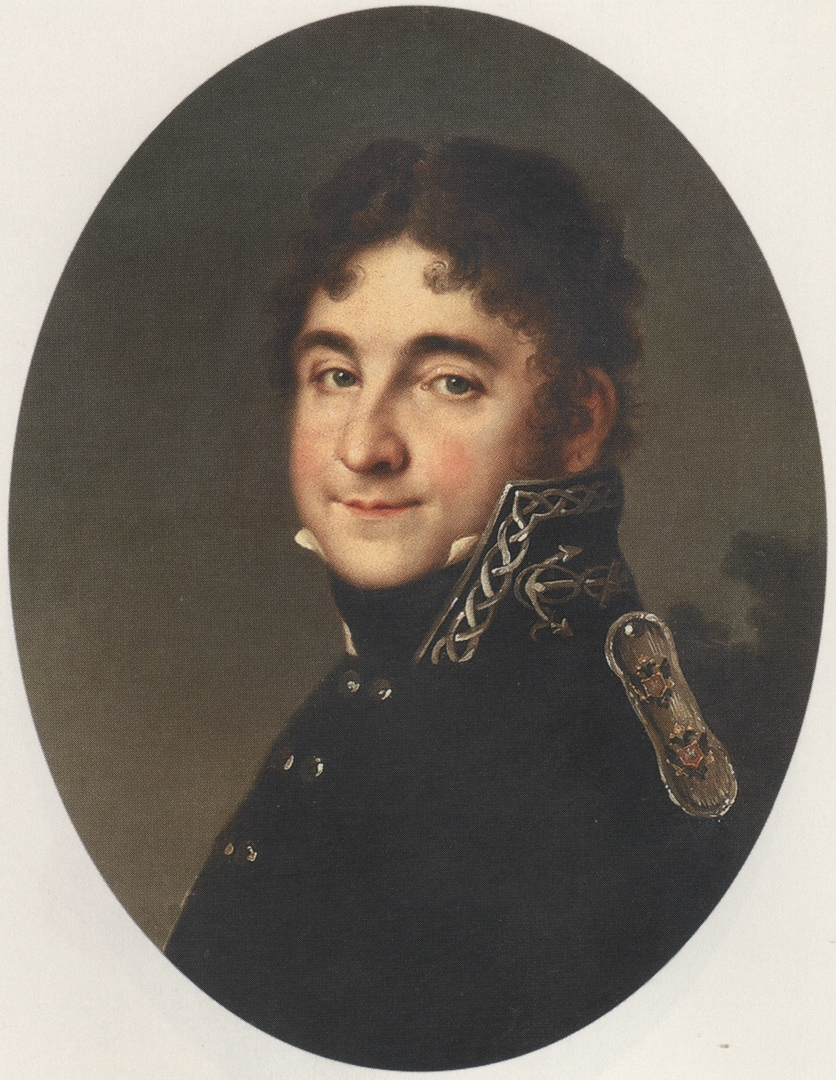 Gagarin Sergey Ivanovich